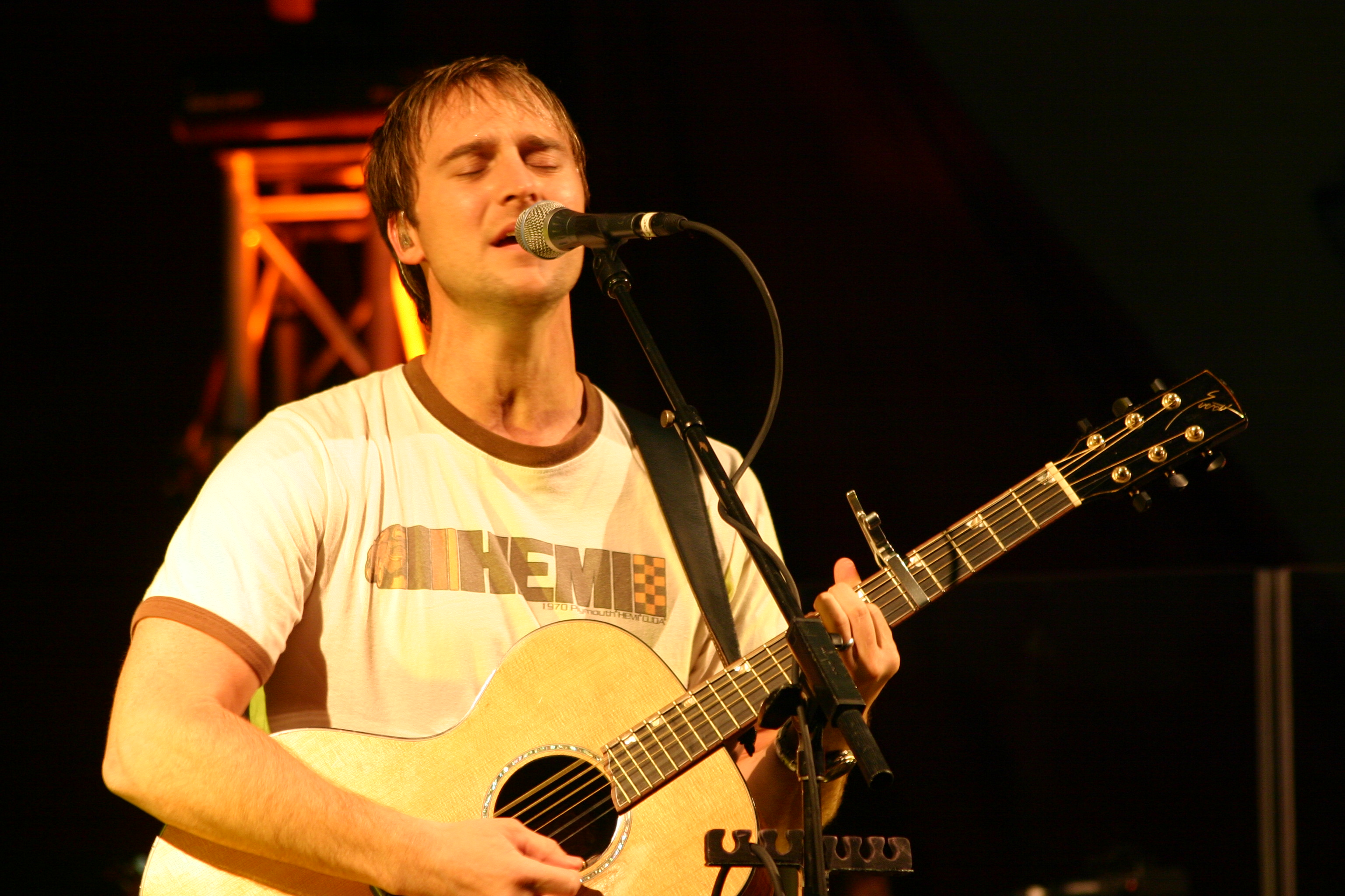 Bebo Norman at Asbury College, Fall 2004